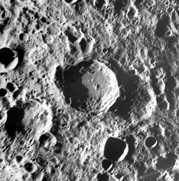 Artem'ev crater